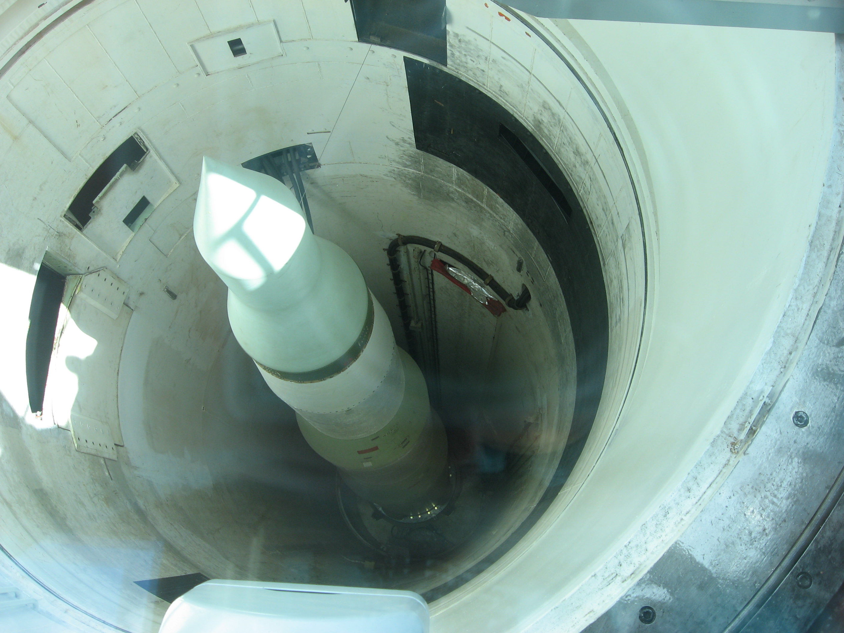 A picture of Minuteman Missile NHS, South Dakota